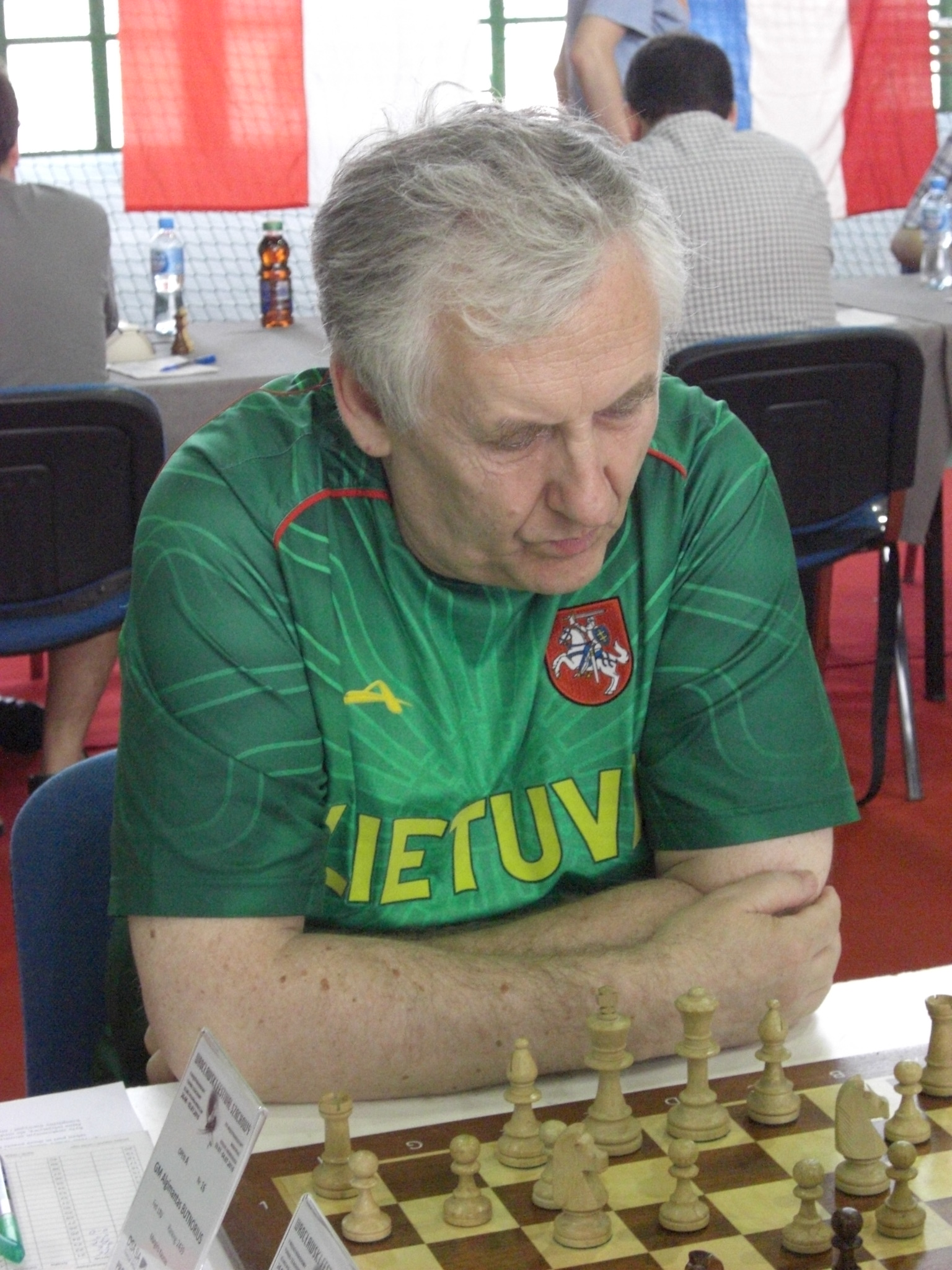 Algimantas Butnorius during Polonia Wroclaw's 5th International Chess Tournament (2010)